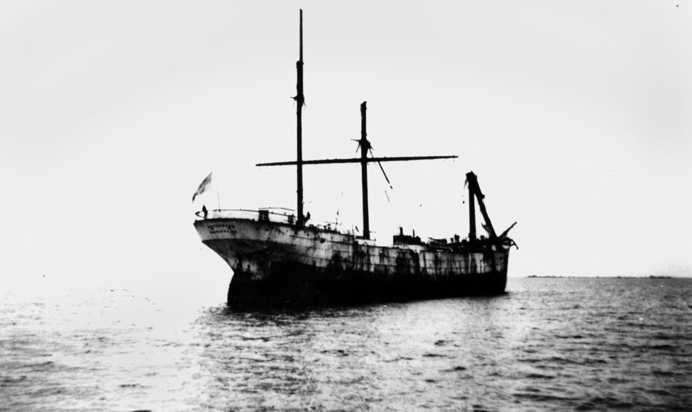 Hougomont (ship) The 'Hougomnt' was built in 1897. Here it is pictured dismasted. (Description supplied with photograph).